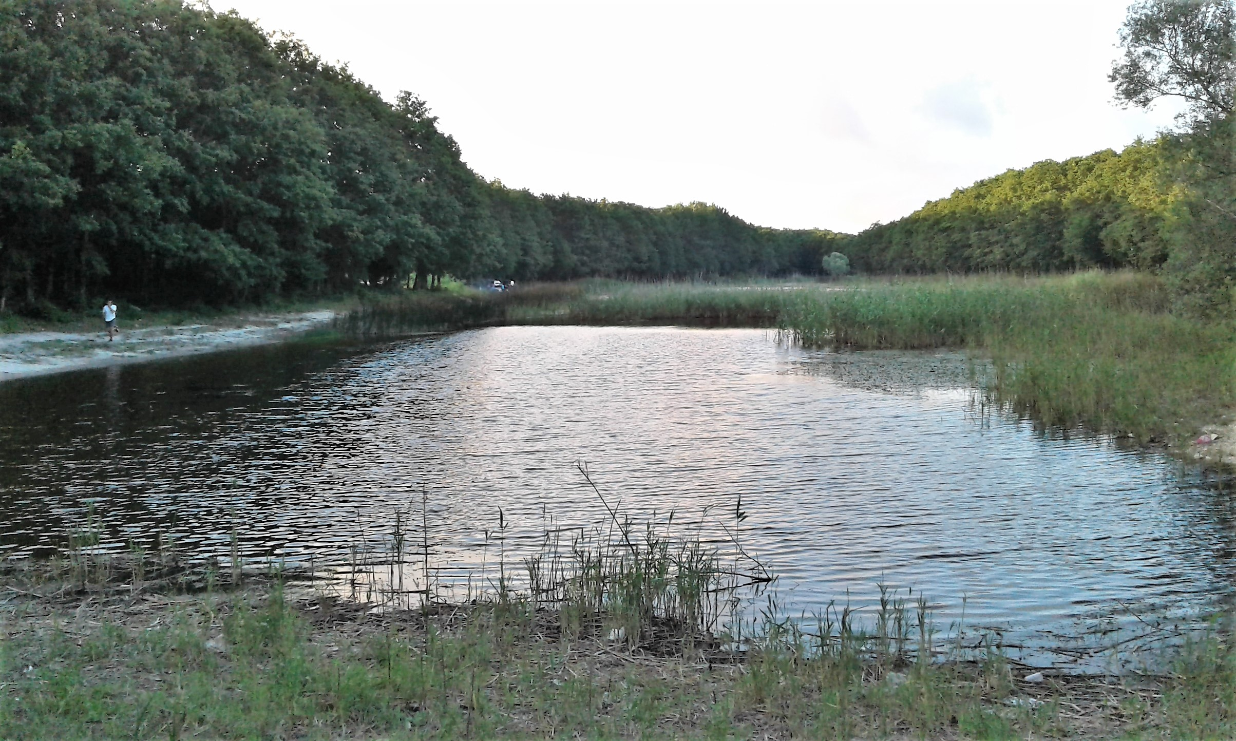 Danamandıra Nature Park in Danamandıra village of Silivri, Istanbul, Turkey.